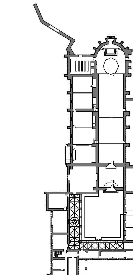 Plano de la Cartuja de Miraflores (Burgos)